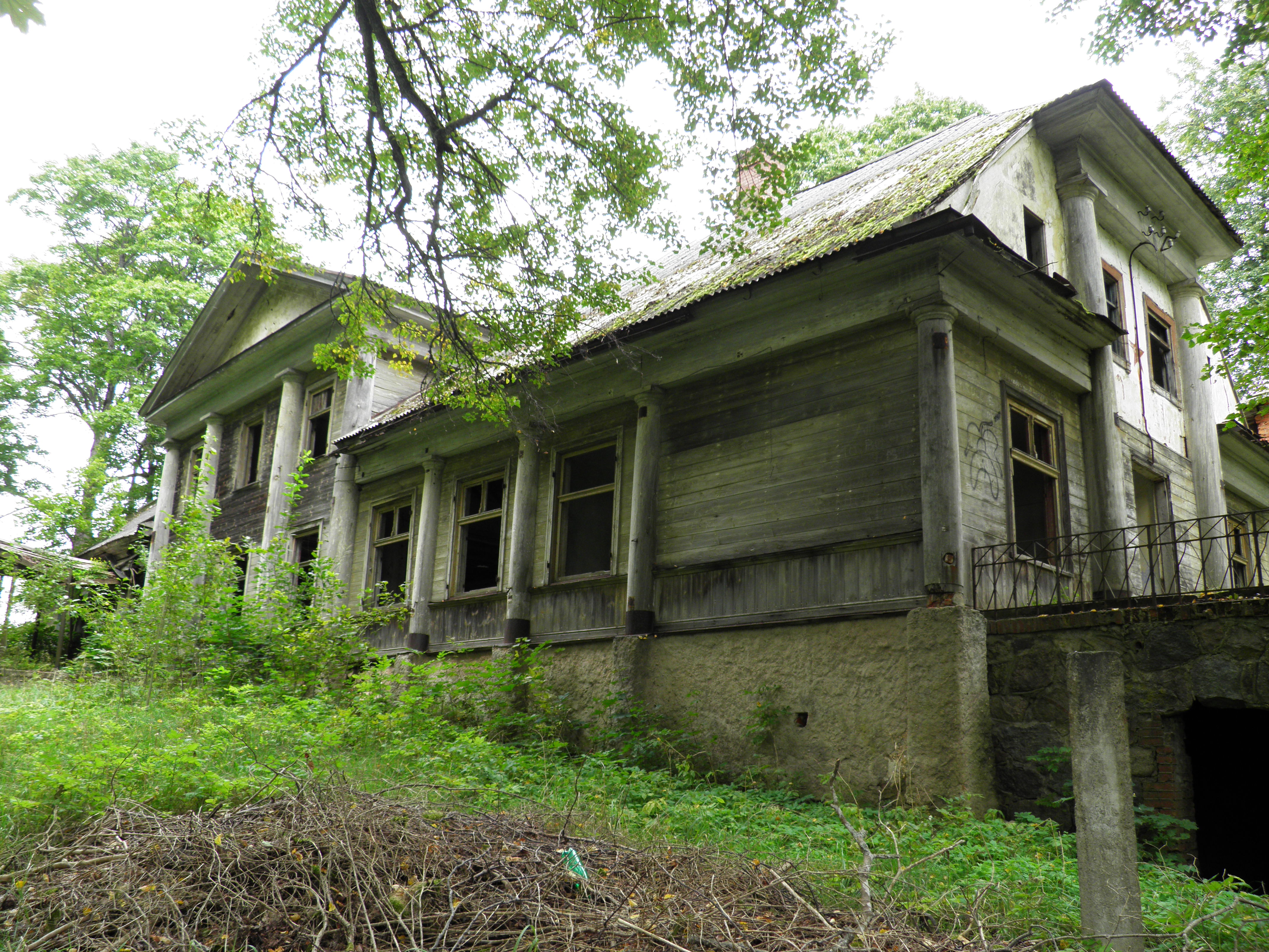 manor